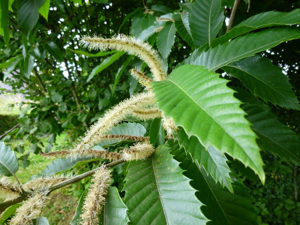 Chestnut leaves